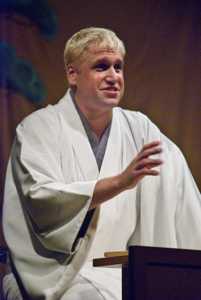 Taken at his performance